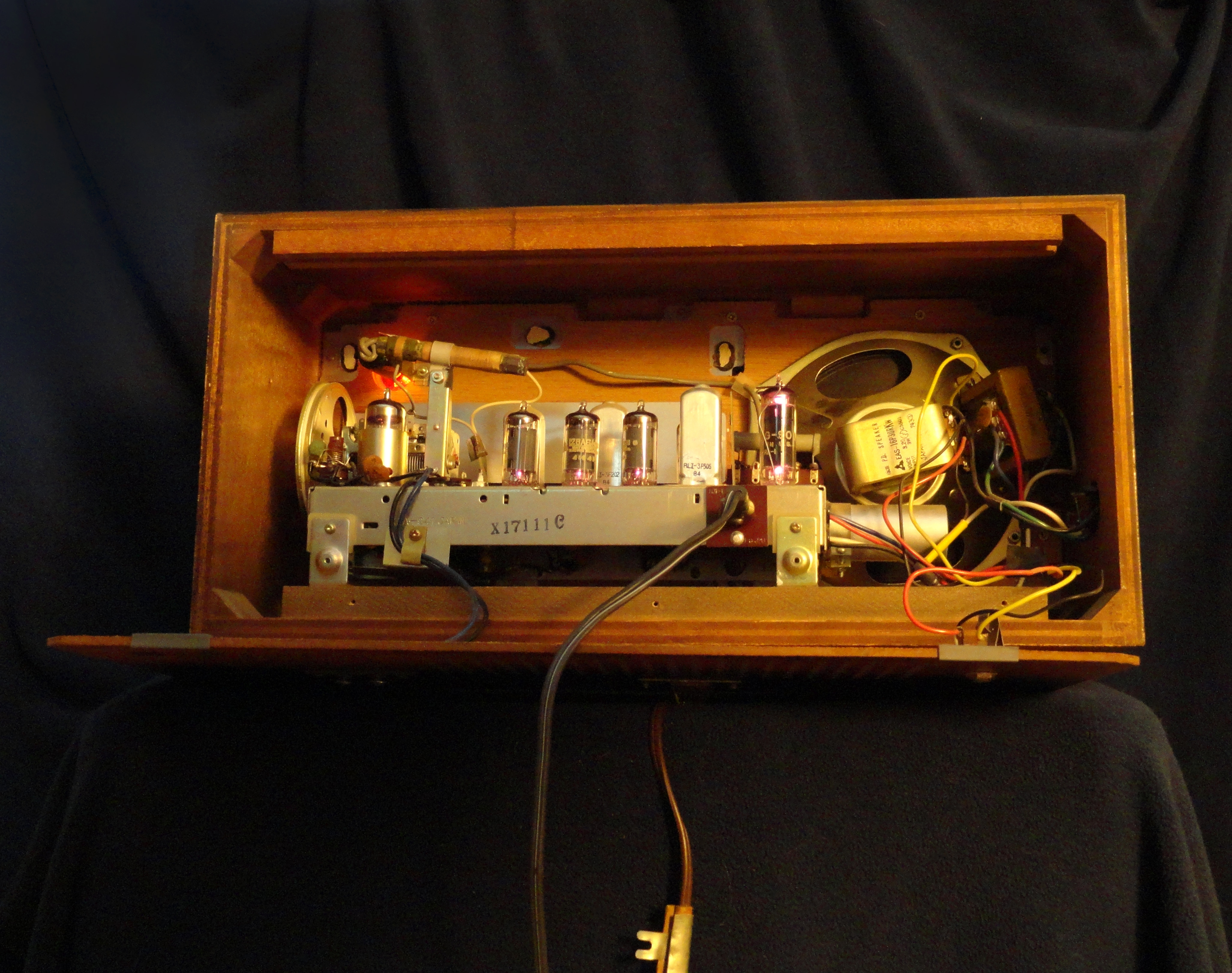 Access panel removed from RE-784A.